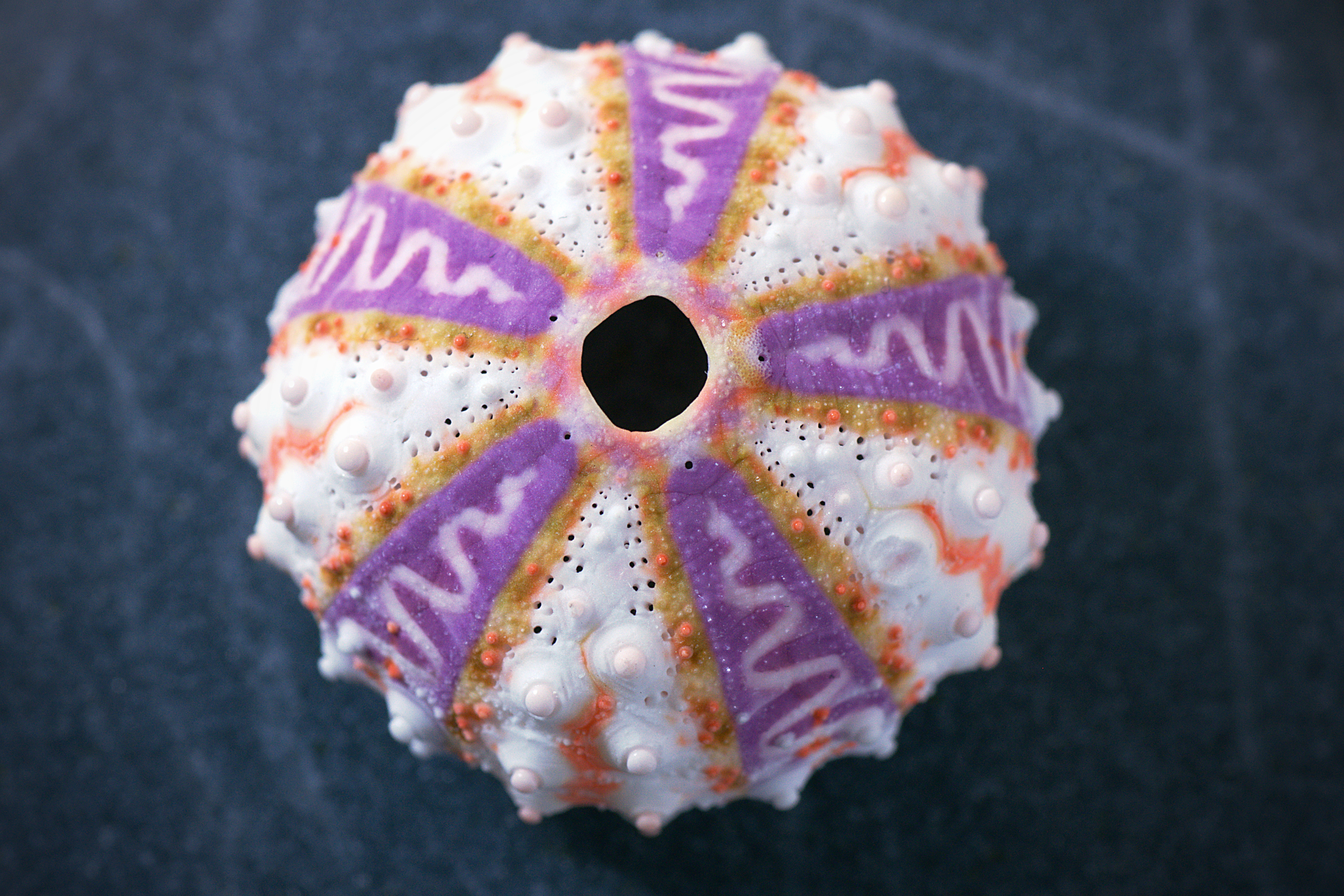 Further info